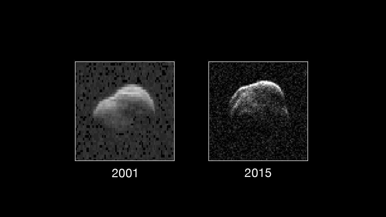 On the left is a radar image of asteroid 1998 WT24 taken in December 2001 by scientists using NASA's the 230-foot (70-meter) DSS-14 antenna at Goldstone, California. On the right is a radar image of the same asteroid acquired on Dec. 11, 2015. The radar images from 2001 (on the left), have a resolution of about 60 feet (19 meters) per pixel. The radar image from 2015 (on the right) achieved a spatial resolution as fine as 25 feet (7.5 meters) per pixel.